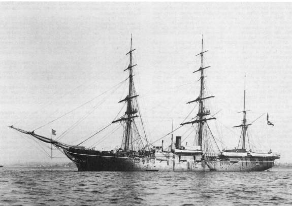 Alliance at anchor off Tompkinsville, in this turn-of-the-century photograph by A. Loeffler of Staten Island. (NH 96649)